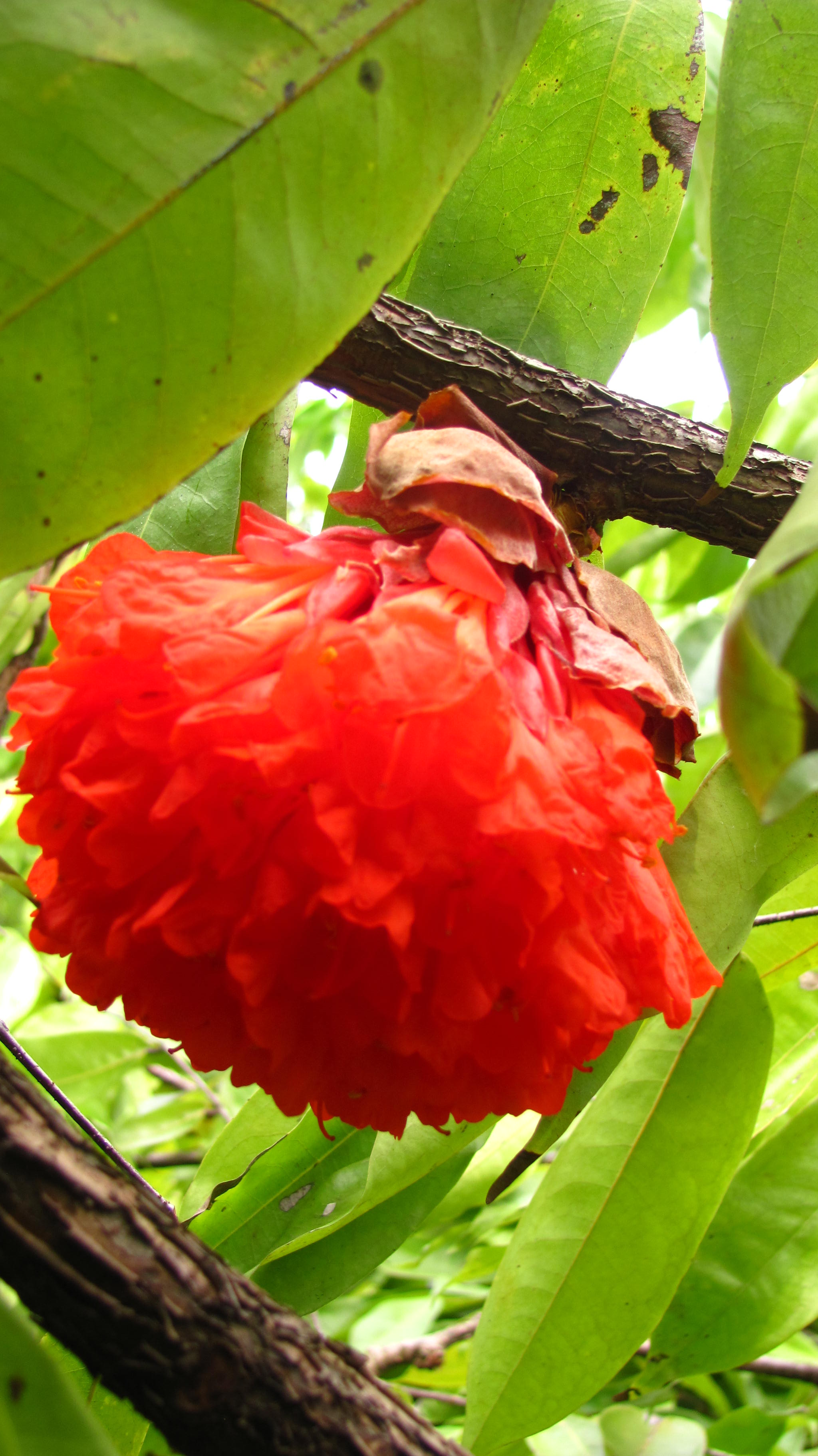 Brownea grandiceps